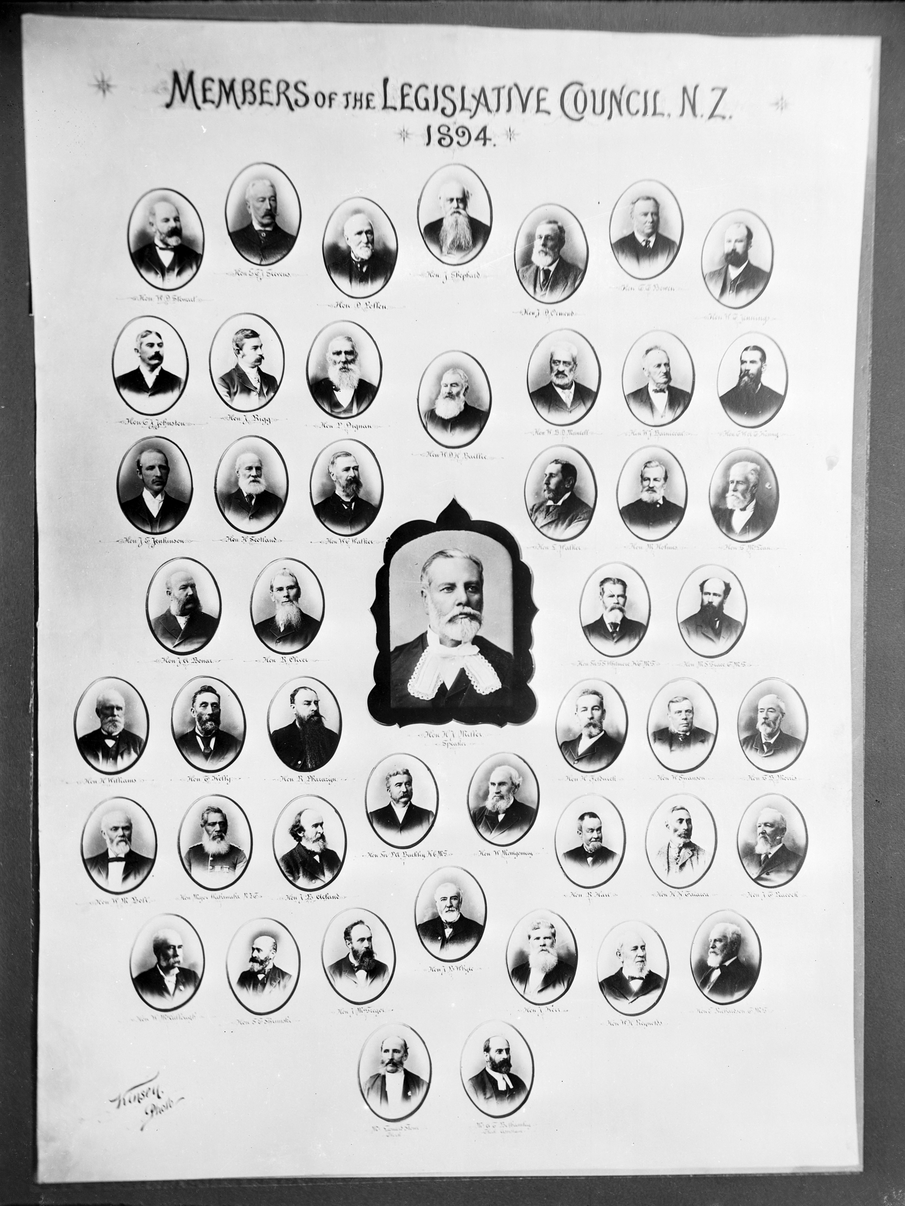 Photographic montage by William Kinsey, depicting members of the Legislative Council of New Zealand in 1894. Centre: Speaker Henry Miller Top row (from left): William Downie Stewart, Edward Cephas John Stevens, Daniel Pollen, Joseph Shephard, John Davies Ormond, Charles Bowen, William Thomas Jennings Second row: Charles John Johnston, John Rigg, Patrick Dignan, W. D. H. Baillie, Walter Mantell, John Barnicoat, Courtney Kenny Third row: John Jenkinson, Henry Scotland, William Campbell Walker, Lancelot Walker, Matthew Holmes, George McLean Fourth row: James Alexander Bonar, Richard Oliver, [not legible], Morgan Stanislaus Grace Fifth row: Henry Williams, Thomas Kelly, Robert Pharazyn, Henry Feldwick, William Swanson, George Morris Sixth row: William Bolt, Ropata Wahawaha, John Acland, Patrick Alphonsus Buckley, William Montgomery, [not legible], Hori Kerei Taiaroa, John Thomas Peacock Seventh row: William McCullough, Samuel Edward Shrimski, John MacGregor, John Blair Whyte, James Kerr, William Hunter Reynolds, Edward Richardson Eight row: [both names illegible, but not MLCs]